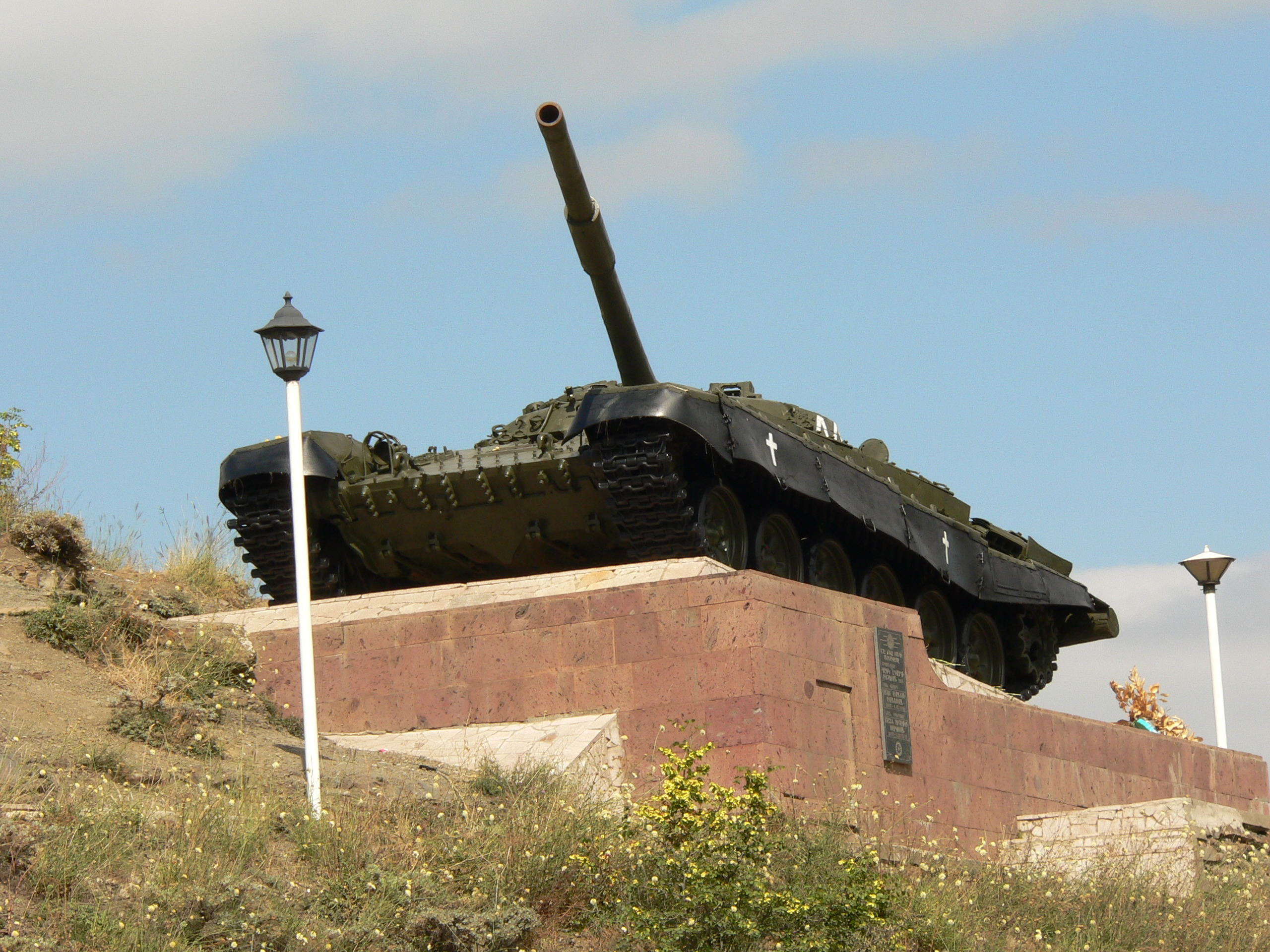 Monument to the crew of T-72, which was first to enter Shushi on 8 May 1992 and was destroyed by Azeri forces